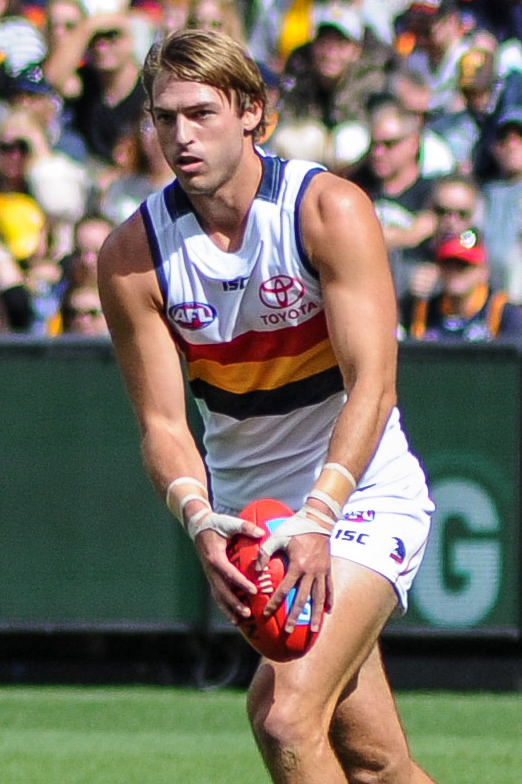 Daniel Talia during the AFL round two match between Hawthorn and Adelaide on 1 April 2017 at the Melbourne Cricket Ground in Melbourne, Victoria.